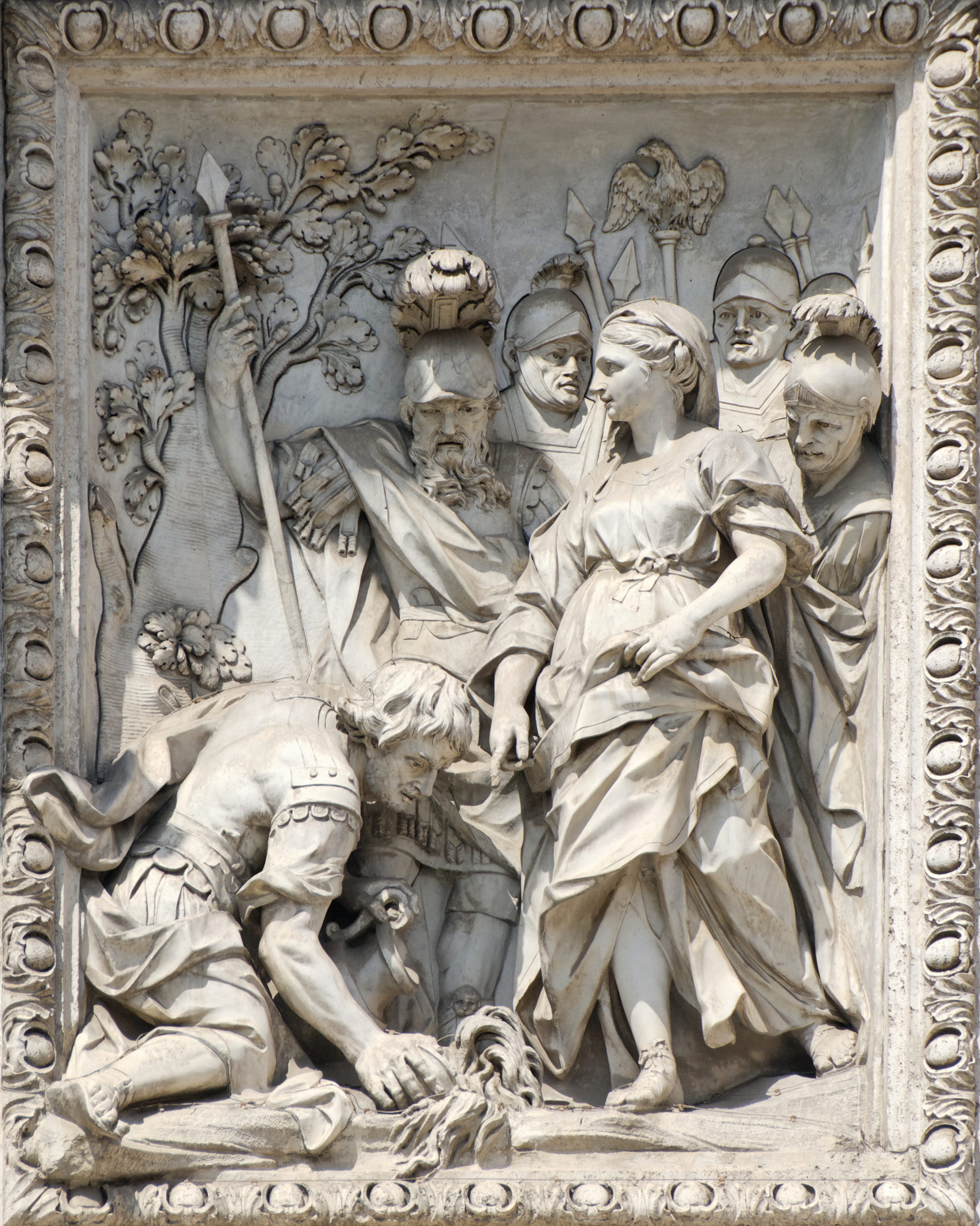 A young maiden shows a spring to soldiers (legend about the Aqua Virgo), relief above the Trevi Fountain, Rome.